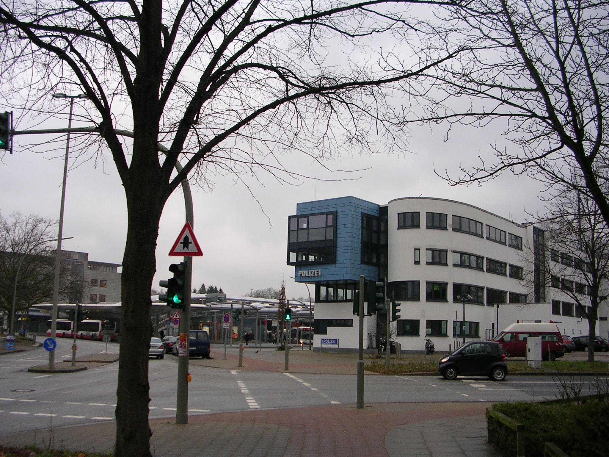 Interchange station bus/Terminal S-Bahn station (suburban train) Hamburg-Poppenbüttel, at Wentzelplatz with police station (PK) 35